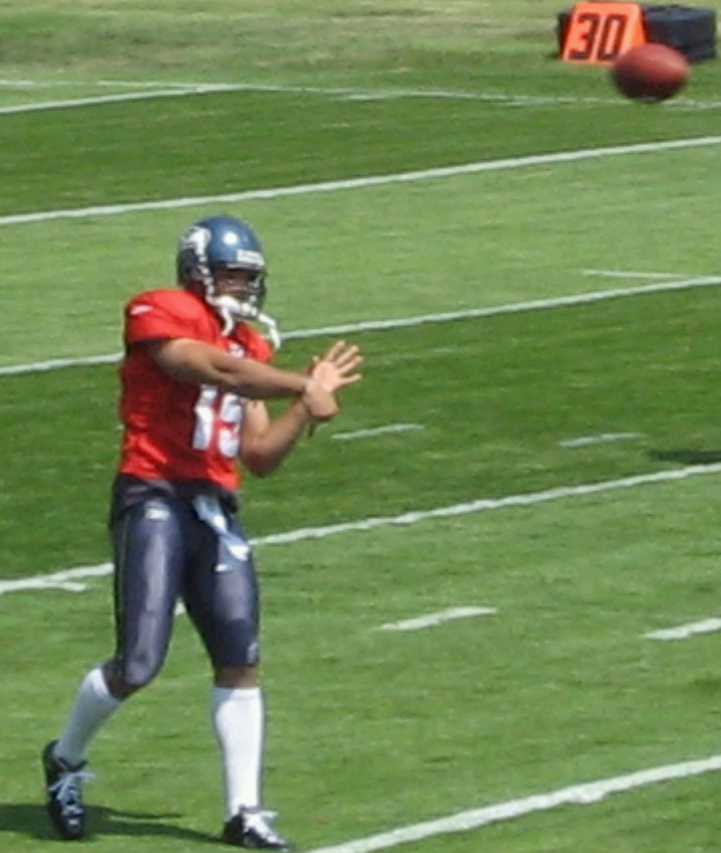 Seattle Seahawk 2nd QB, Seneca Wallace, throws in training camp.